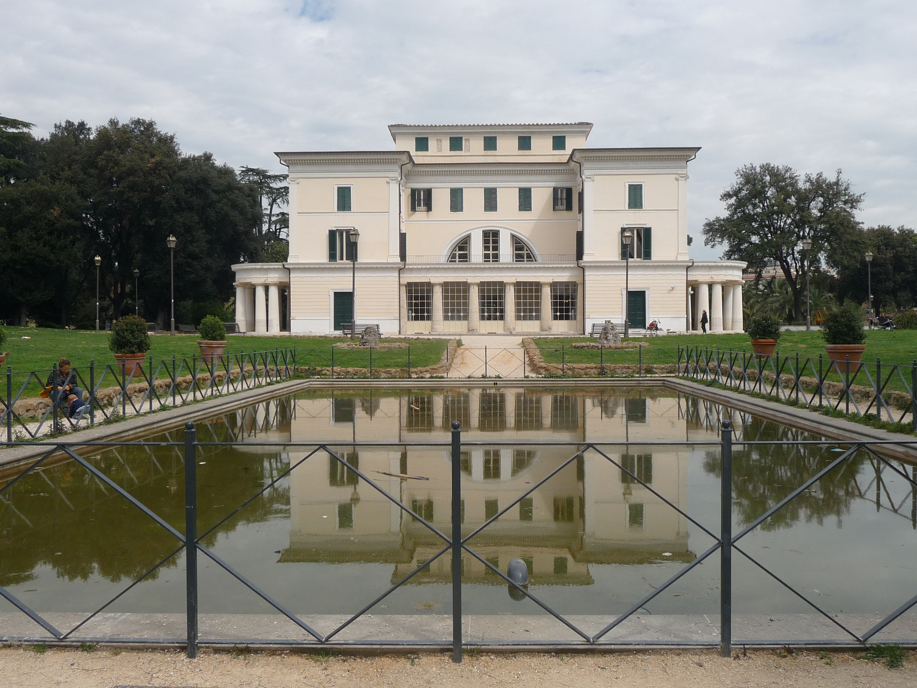 Villa Torlonia in Rome - Casino nobile